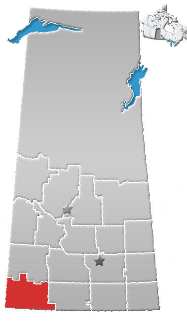 Saskatchewan census area No. 04